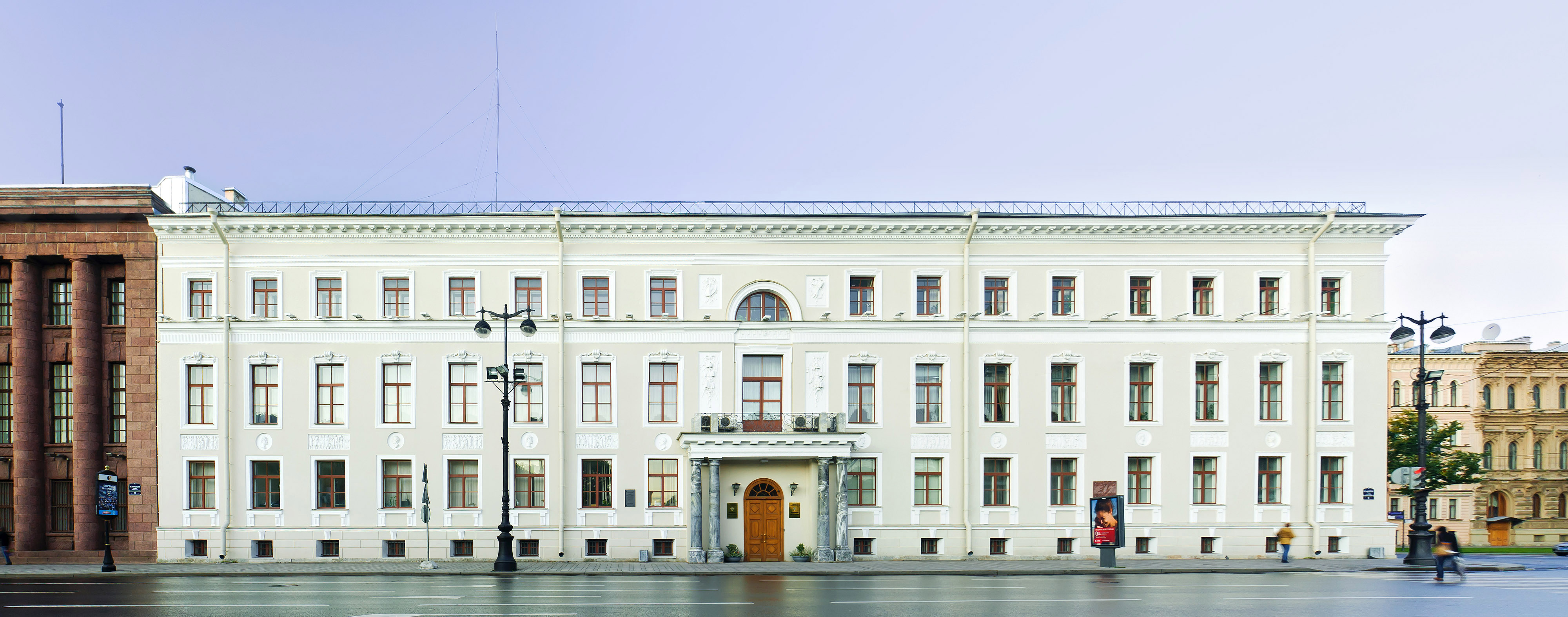 Myatlevs' house